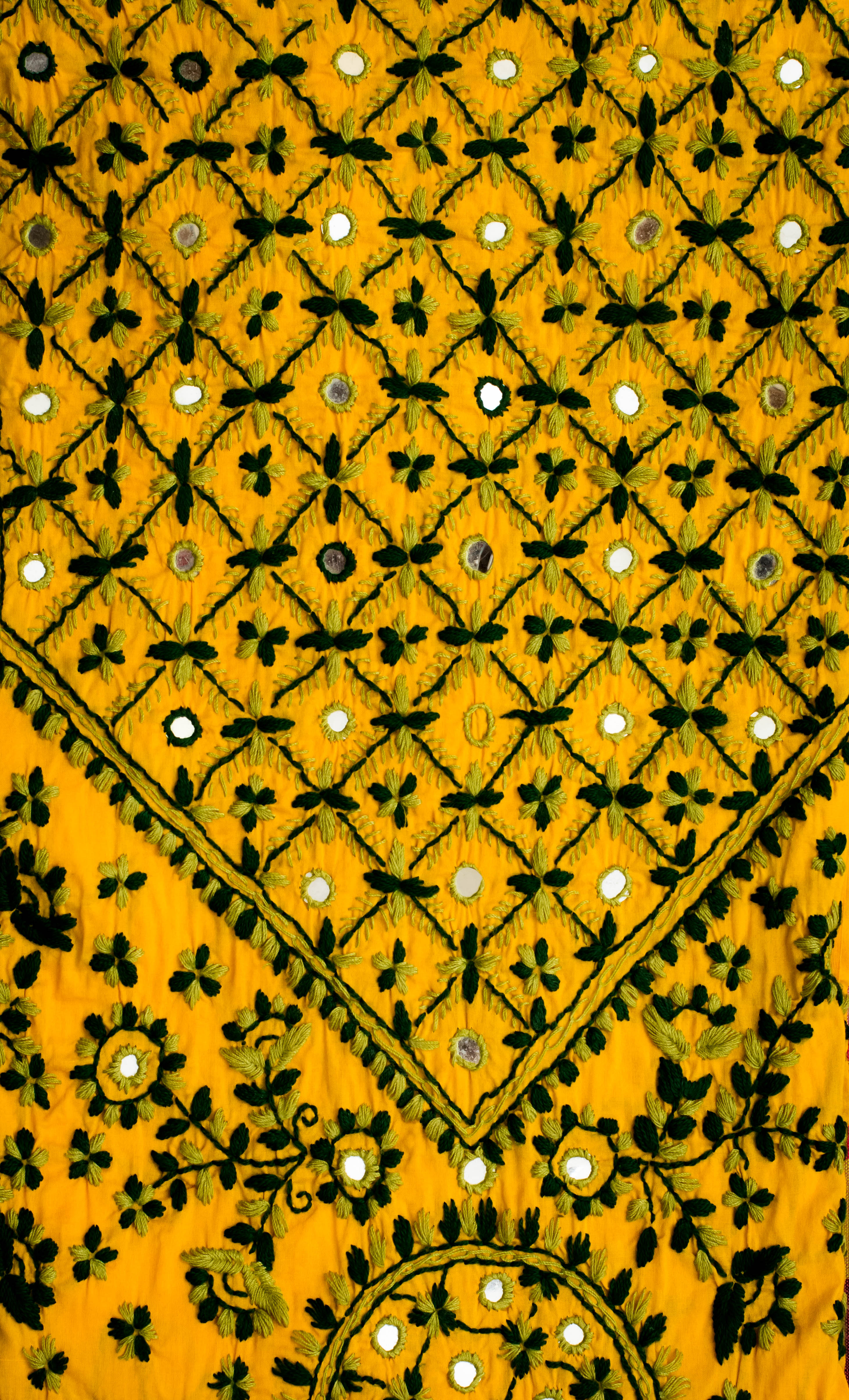 Women dress